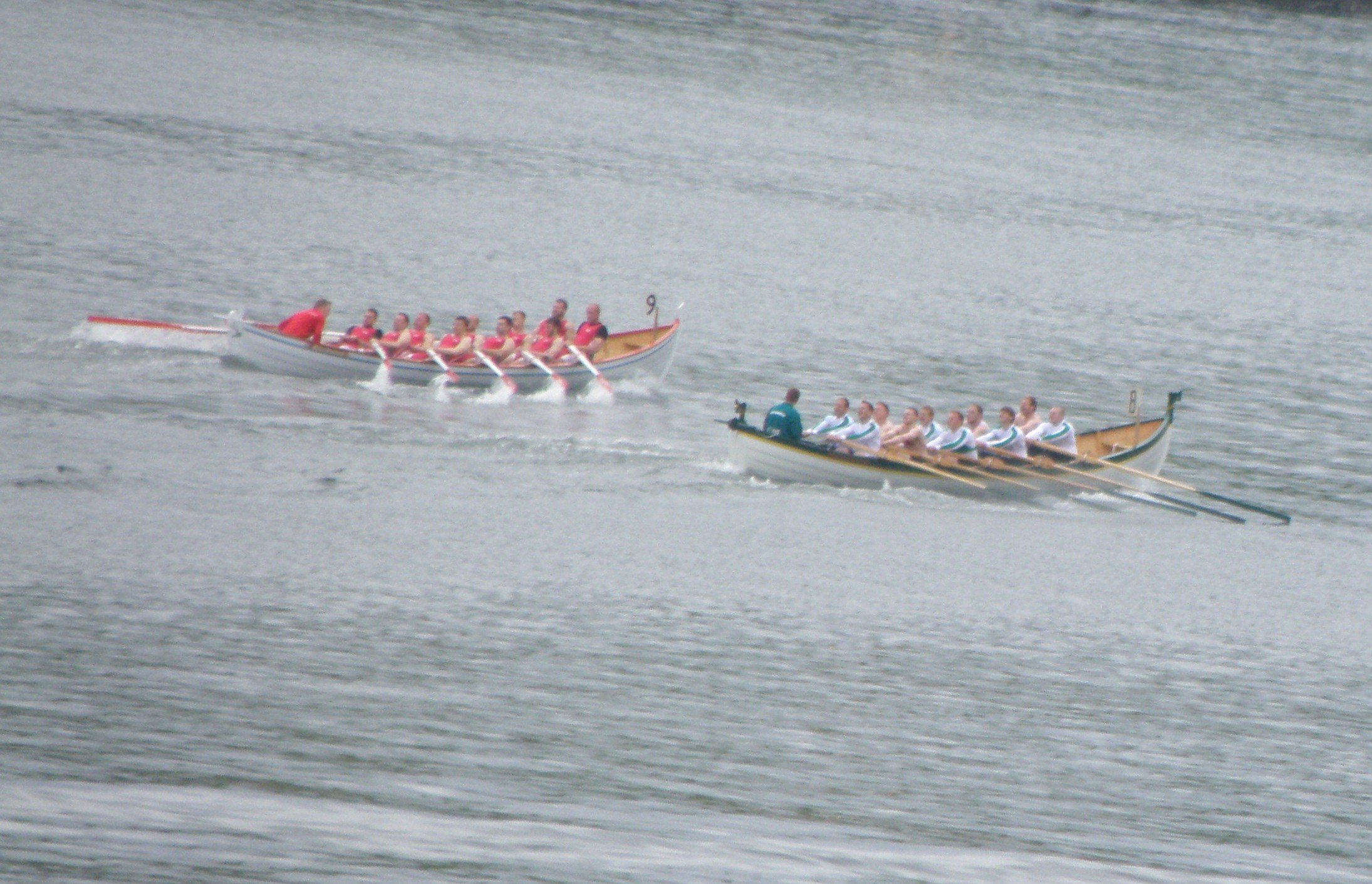 Boat race in Miðvágur in the Faroe Islands at the annual Vestanstevna village festival. The three larger villages in Vágar island are hosts every third year. The other villages are Sørvágur and Sandavágur. There are several boat races around the islands every summer, the final one is at the Olavsoka (Ólavsøka) festival in Tórshavn on 28 July. These two boats are Klaksvíkingur from Klaksvík and Vestmenningur from Vestmanna. They are the largest boats which participate in these kind of boat races (kappróður in Faroese), so-called 10-mannafør. Klaksvíkingur is the boat to the left, it won this race and all the other races so far in 2011, that is five races and two more to go. The winner gets 7 points, number two gets 6 points and so on. The boat which has got most points after the final boat race in Tórshavn wins the Faroese Championship. There were only three boats in this race, the smaller boats which are called 5-mannafar / 5-mannafør are more popular. 10-mannafør are rowing 2000 meters, 8-mannafør are rowing 1500 meters and the smaller boats are rowing 1000 meters, the children are also rowing, their distance is 500 meters. Føroyskt: Kappróður á Vestanstevnu í Miðvági 9. juli 2011. Klaksvíkingur og Vestmenningur rógva kapp í róðrinum hjá 10-mannaførunum. Ein annar bátur, Hoyvíkingur, róði eisini, men sæst ikki á myndini.